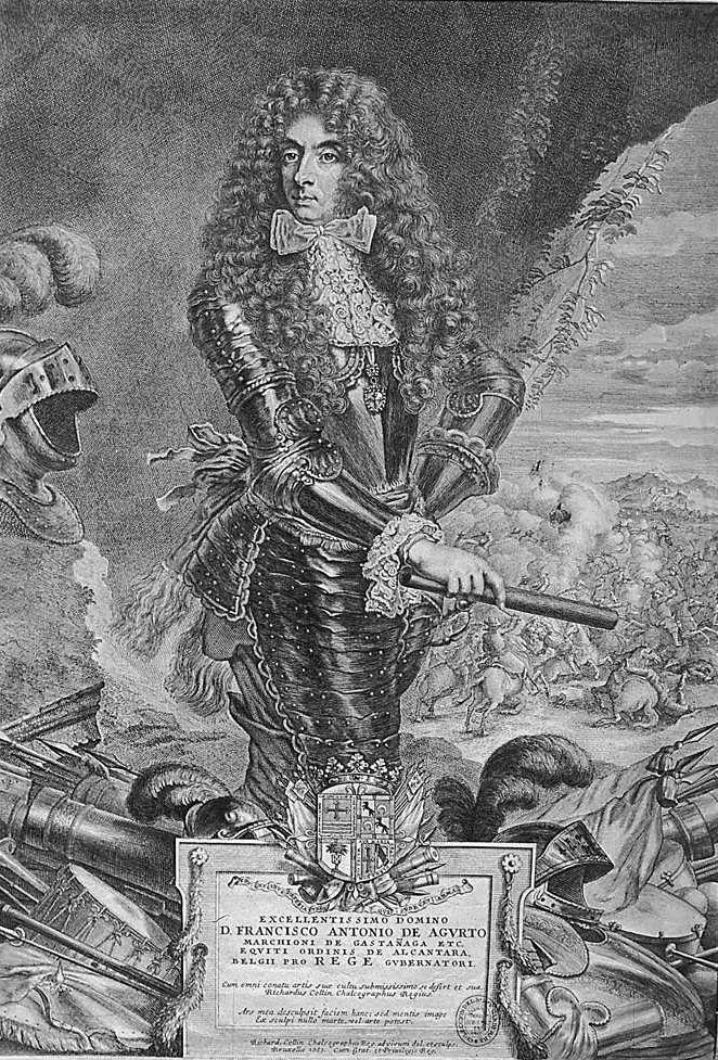 Portrait of Francisco Antonio de Agurto, Governor of the Spanish Netherlands from 1685 to 1692.